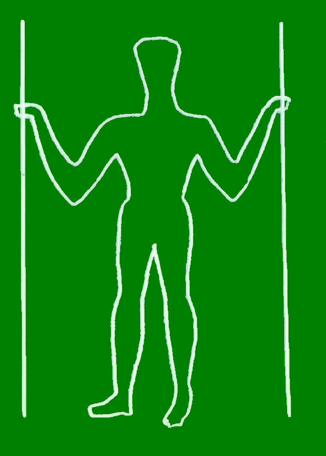 Graphic of the Long Man of Wilmington.